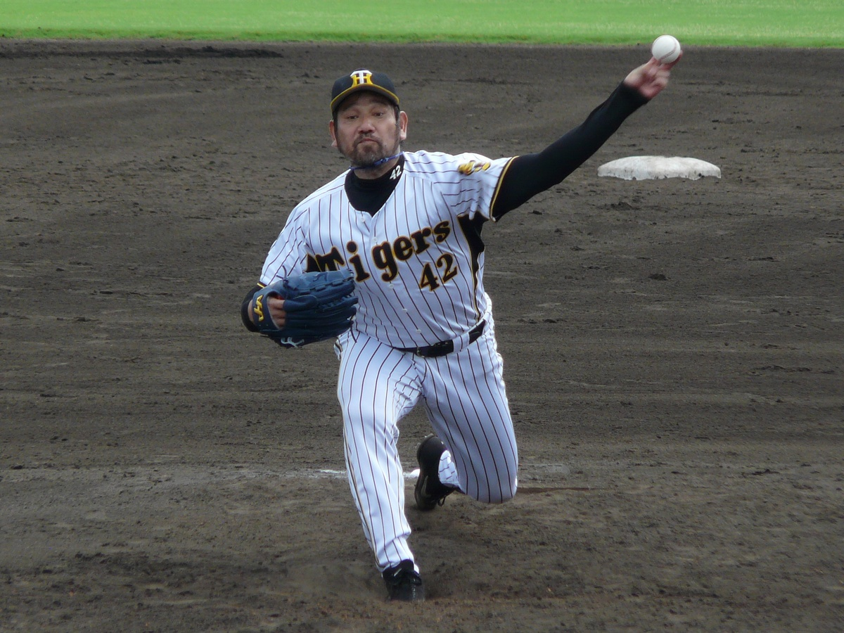 Tsuyoshi Shimoyanagi, pitcher of the Hanshin Tigers, at Hanshin Naruohama Baseball Ground.